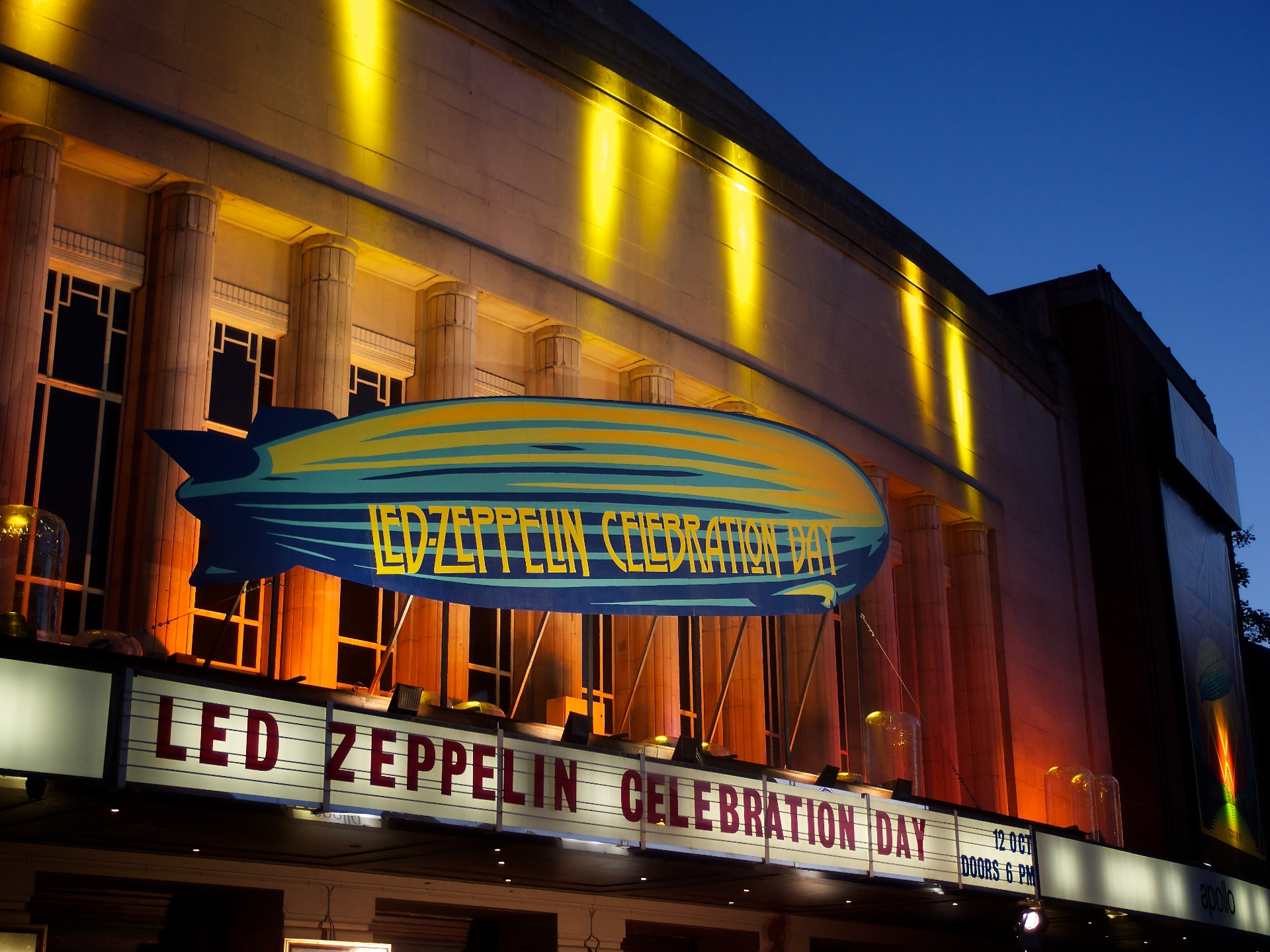 Marquee for the film premiere of Celebration Day outside of the Hammersmith Apollo in London, England, United Kingdom